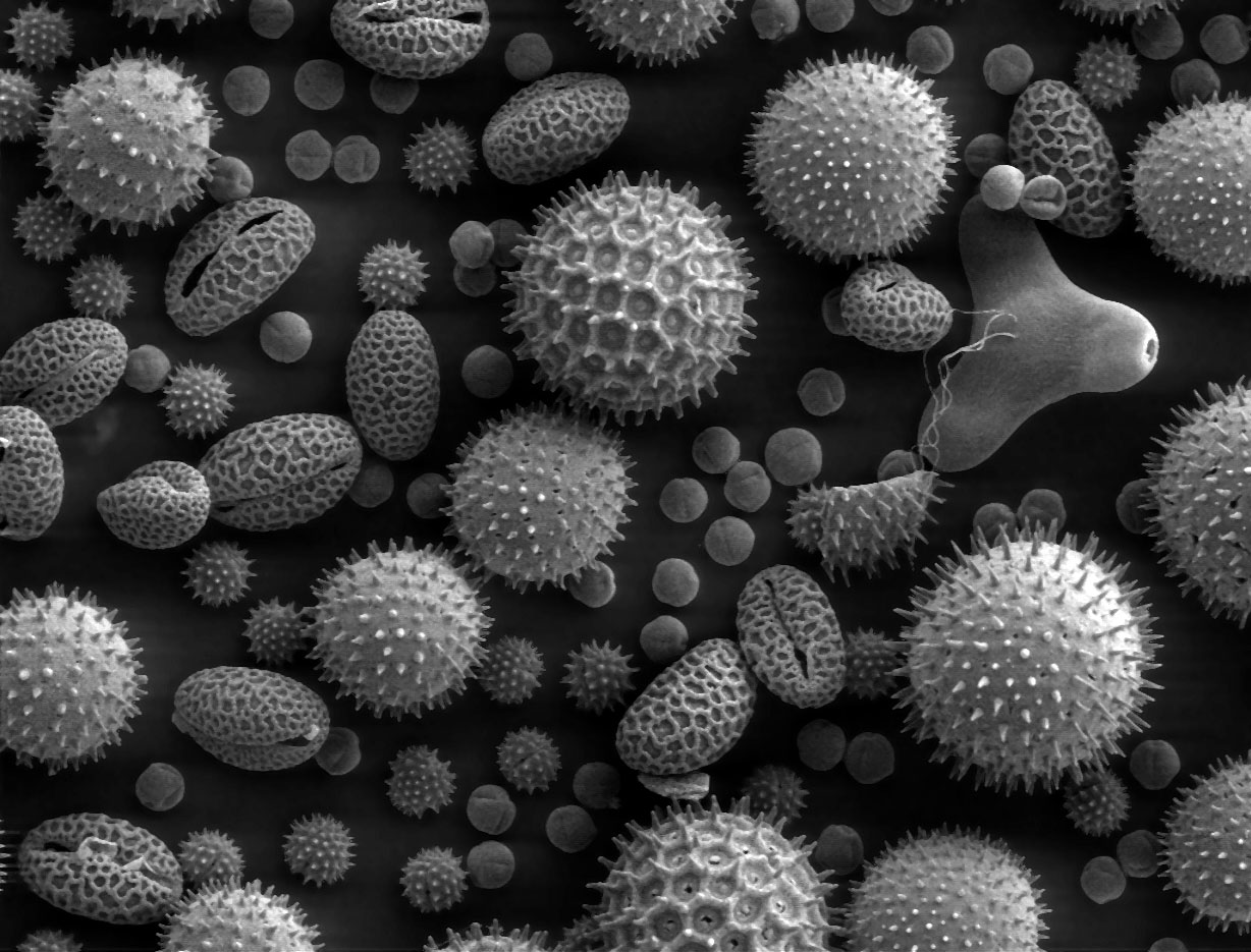 Pollen from a variety of common plants: sunflower (Helianthus annuus), morning glory Ipomoea purpurea, hollyhock (Sildalcea malviflora), lily (Lilium auratum), primrose (Oenothera fruticosa) and castor bean (Ricinus communis). The image is magnified some x500, so the bean shaped grain in the bottom left corner is about 50 μm long.